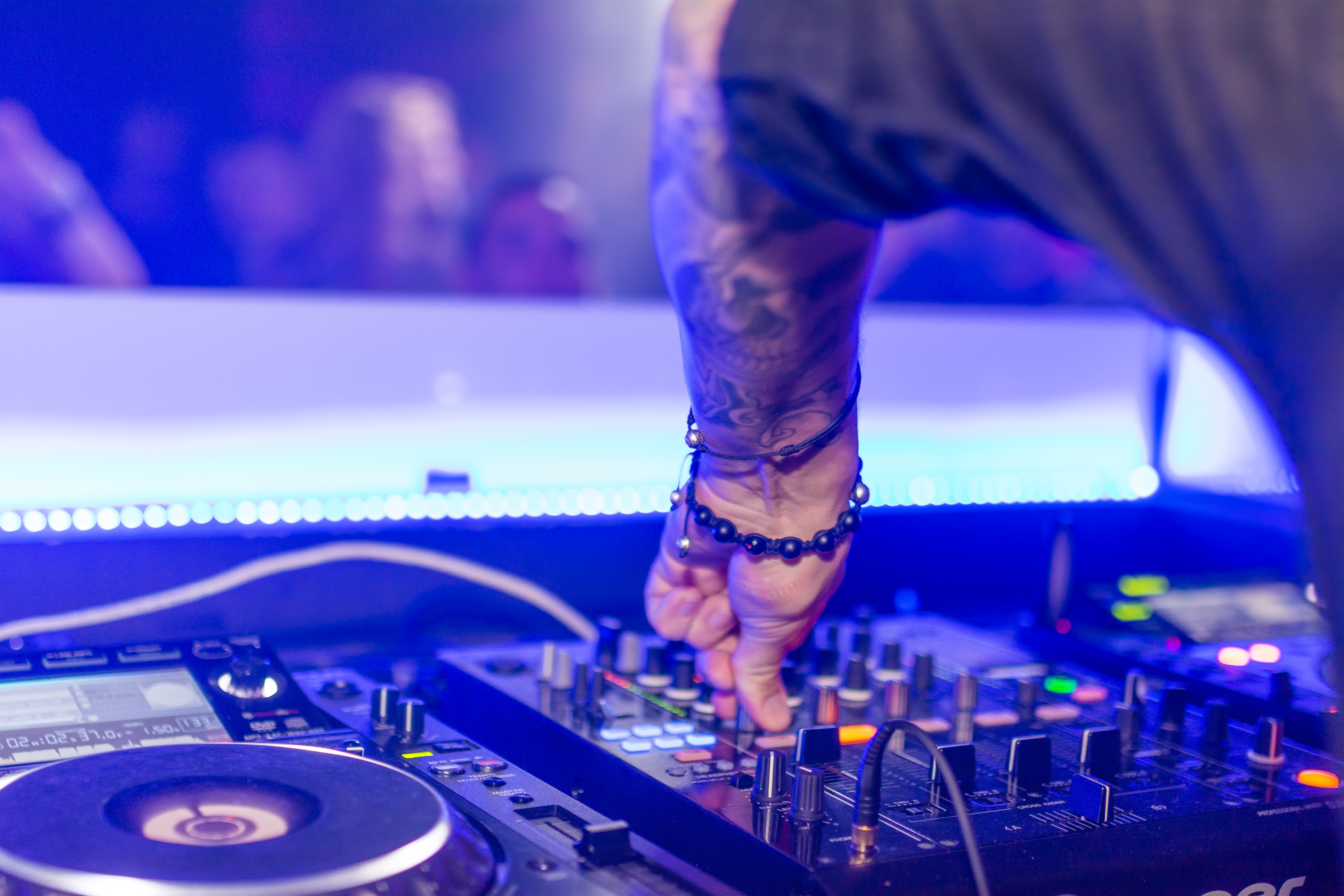 Pioneer DJM-900 Nexus DJ Mixer tweaked ( — old name and description were wrong: it is not a DJM-2000 Nexus (